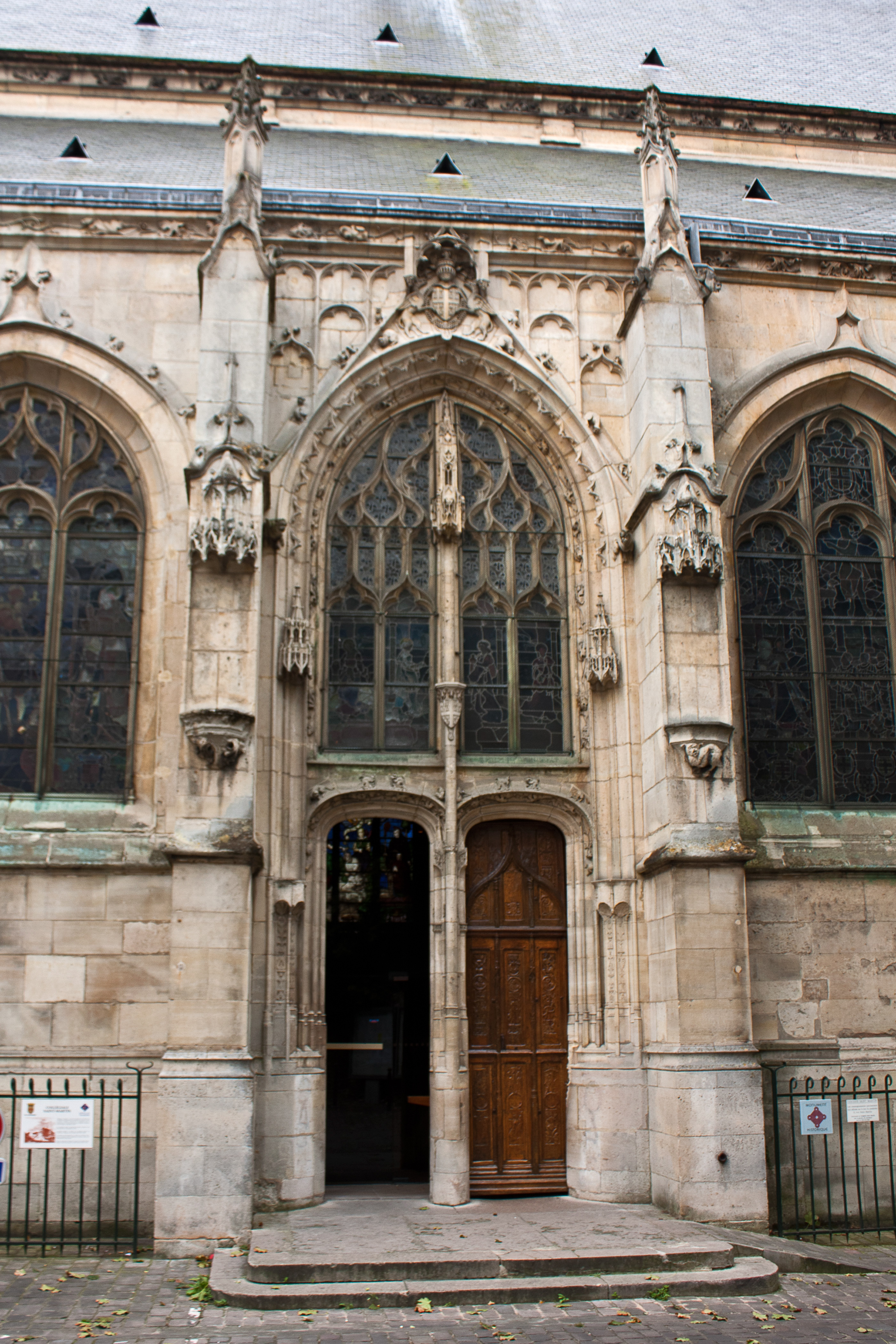 North porch, with basket-handle arch surmounted by a double hug. Closed by two identical doors, finely sculptured